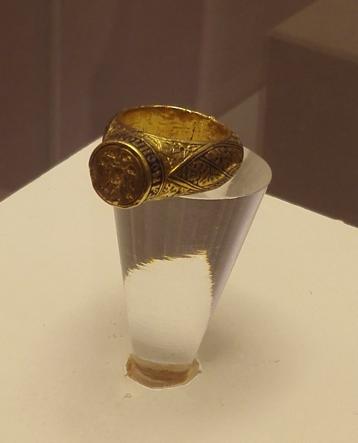 Ring of Konstantin Nemanjić, Originated in Banjska monastery, beginning of the 14th century (until 1322). National Museum in Belgrade